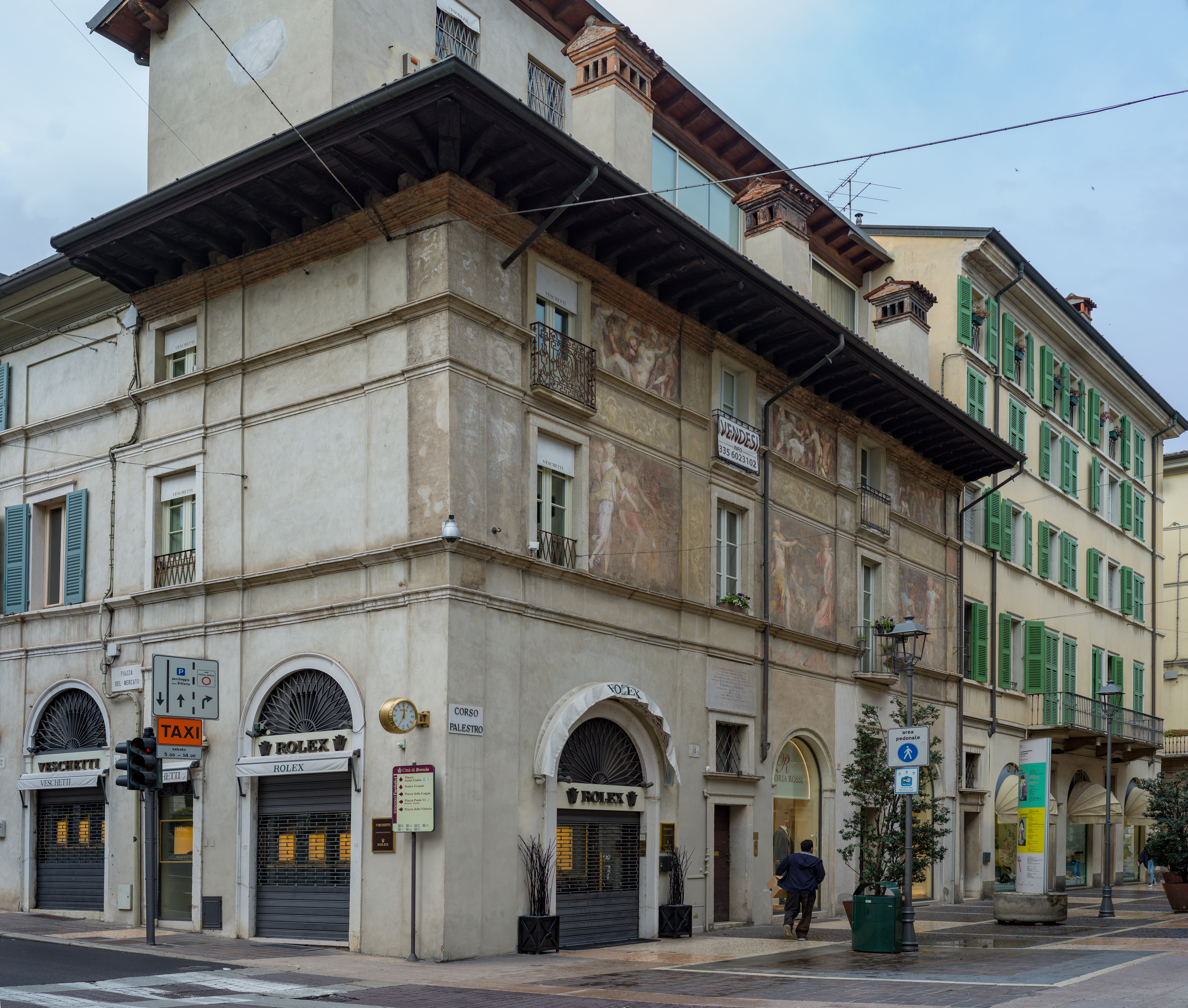 Frescos by Lattanzio Gambara on Corso Palestro street in Brescia.